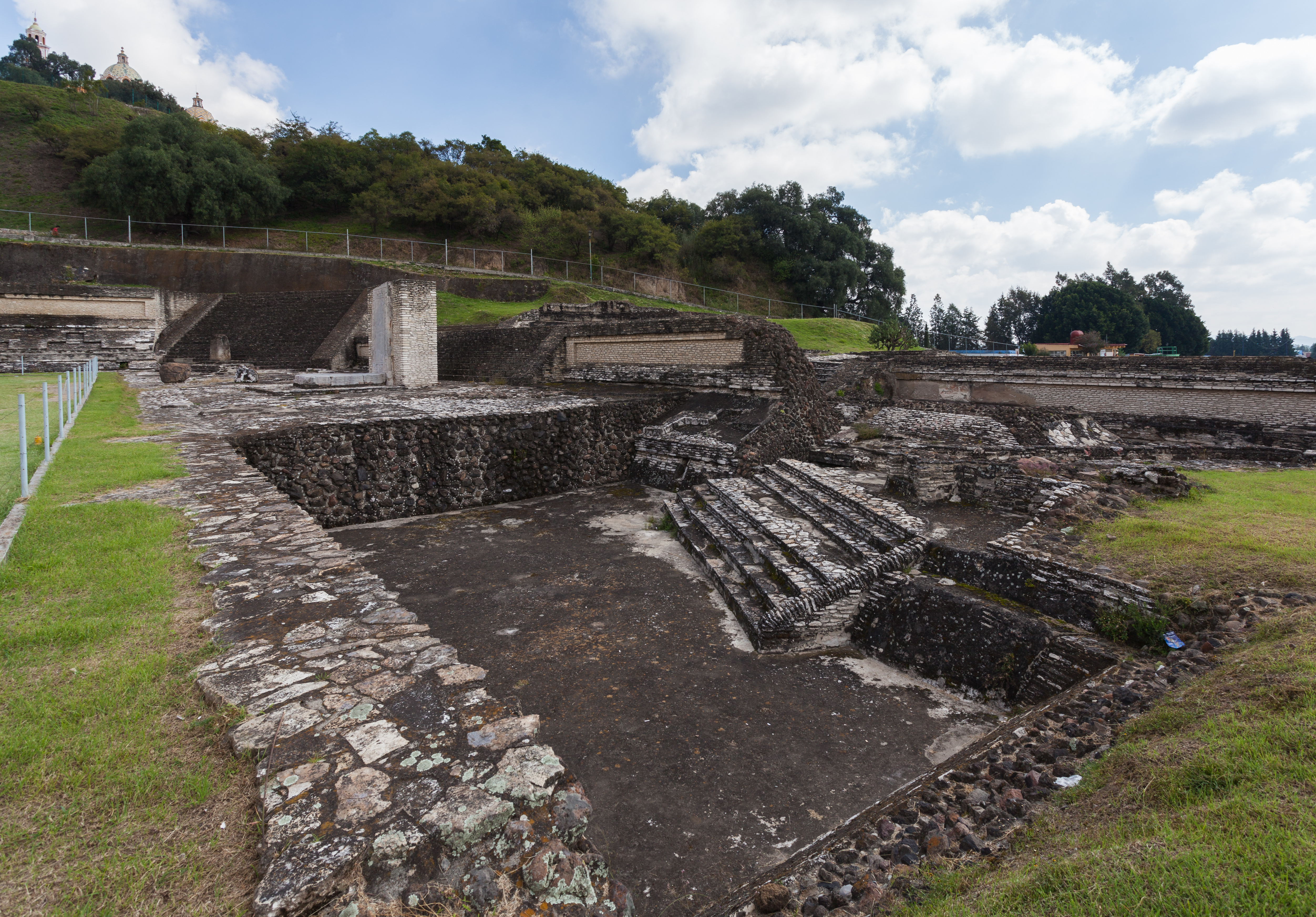 Great Pyramid of Cholula, Puebla, Mexico